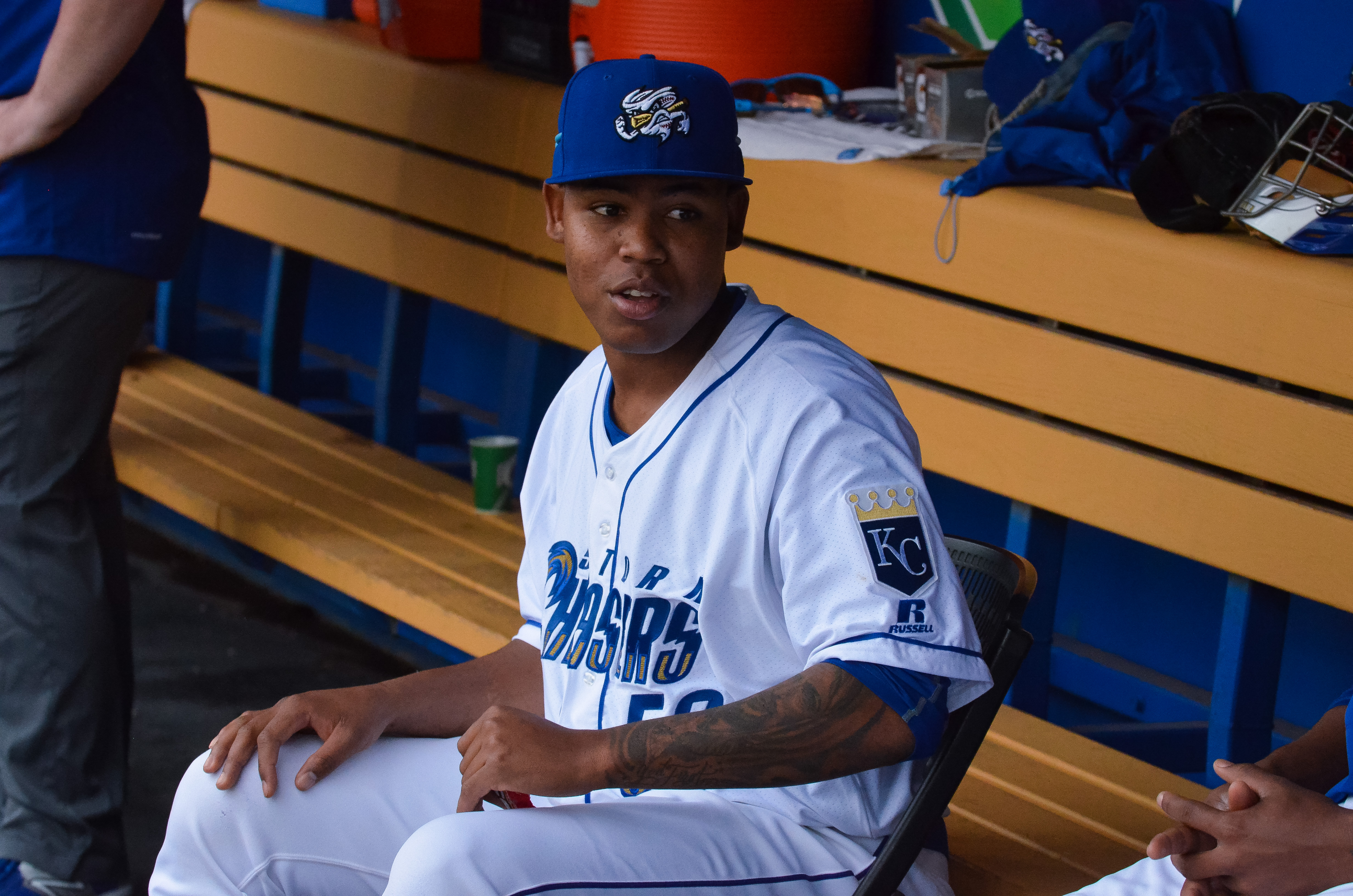 Miguel Almonte sits in the dugout at Werner Park in Omaha with the Omaha Storm Chasers in 2016.